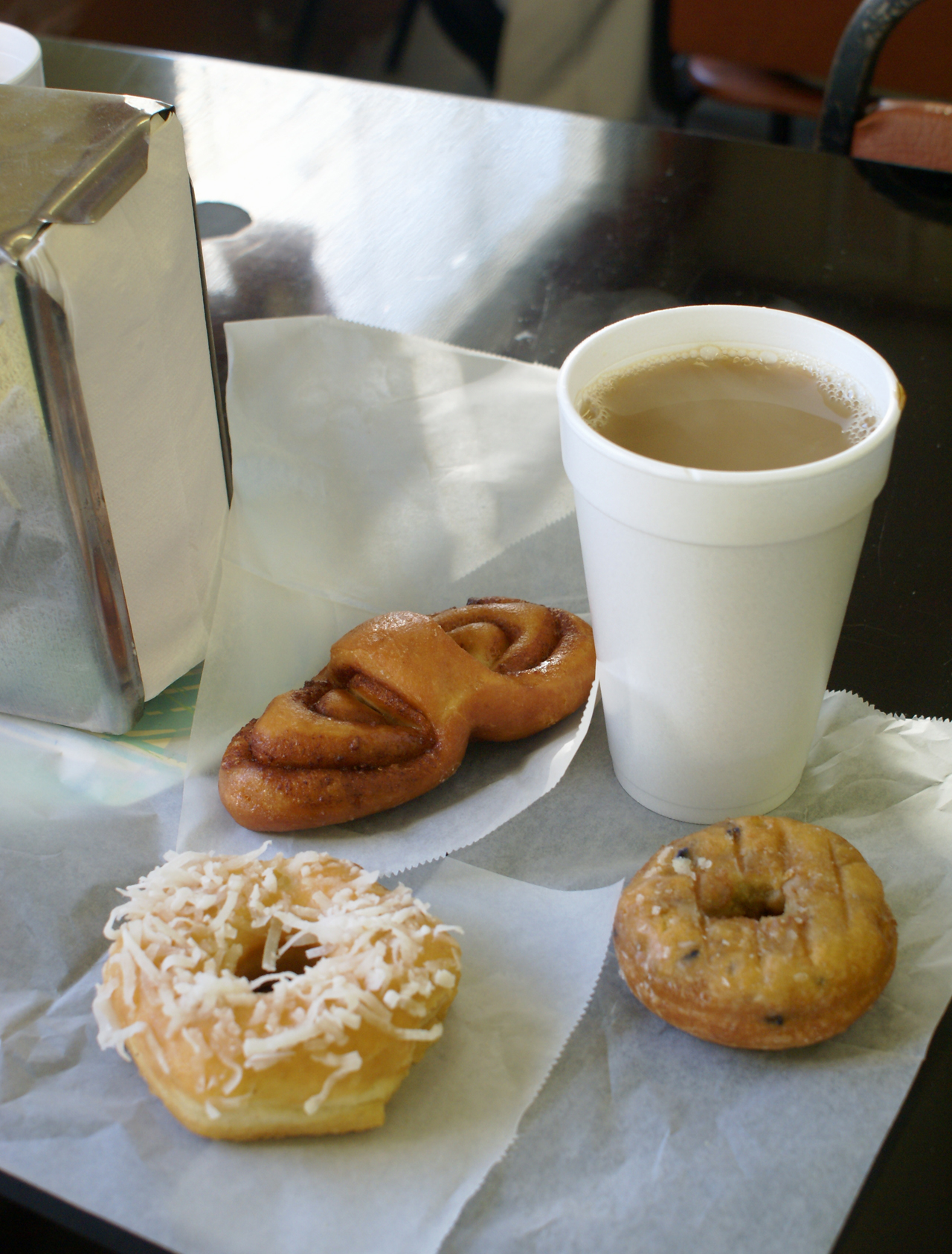 A few tasty treats from Charlottesville's famous Spudnuts Coffee Shop, including the amazing Blueberry Spudnut (right).